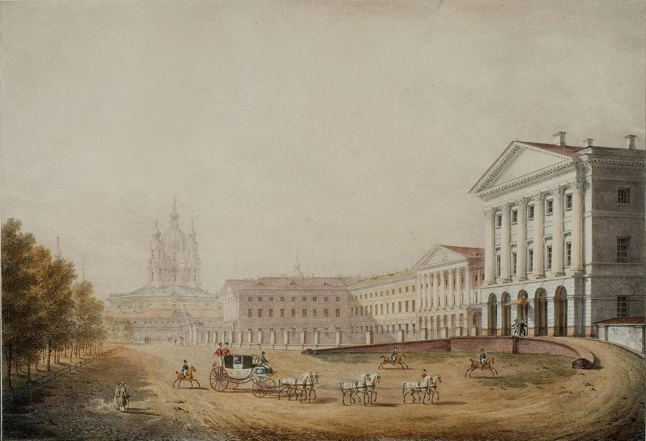 Galaktionov S. F. Smony institute. Litography